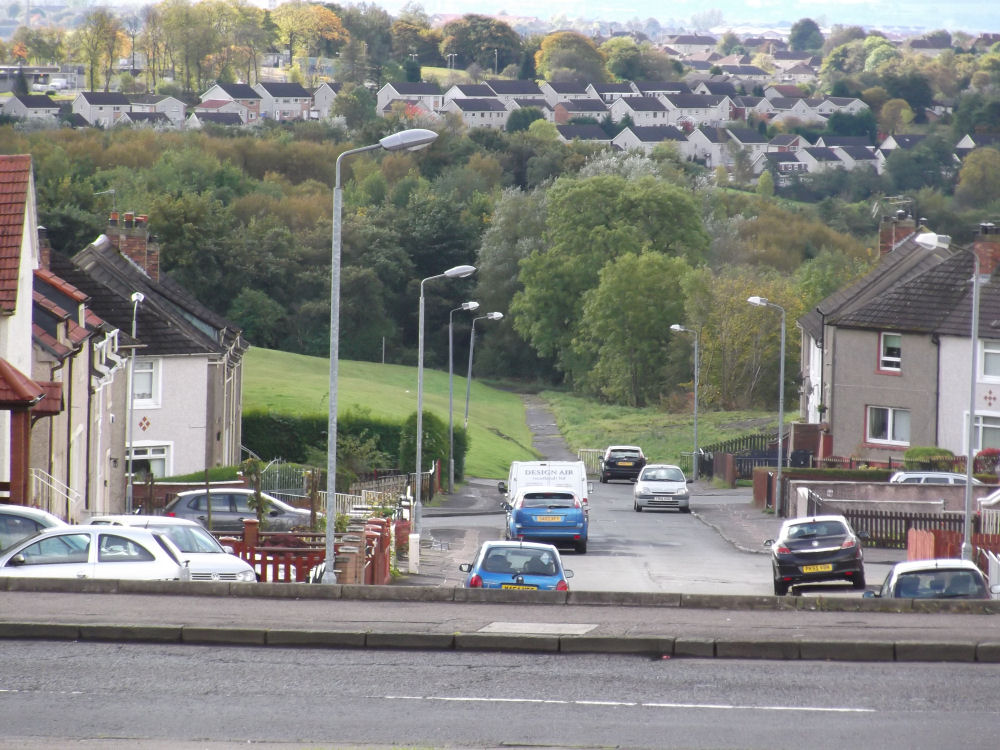 Airdrie former Ballochney Railway Thrushbush branch looking SW at 275567,666622 Ballochney Street Lomond Drive ahead